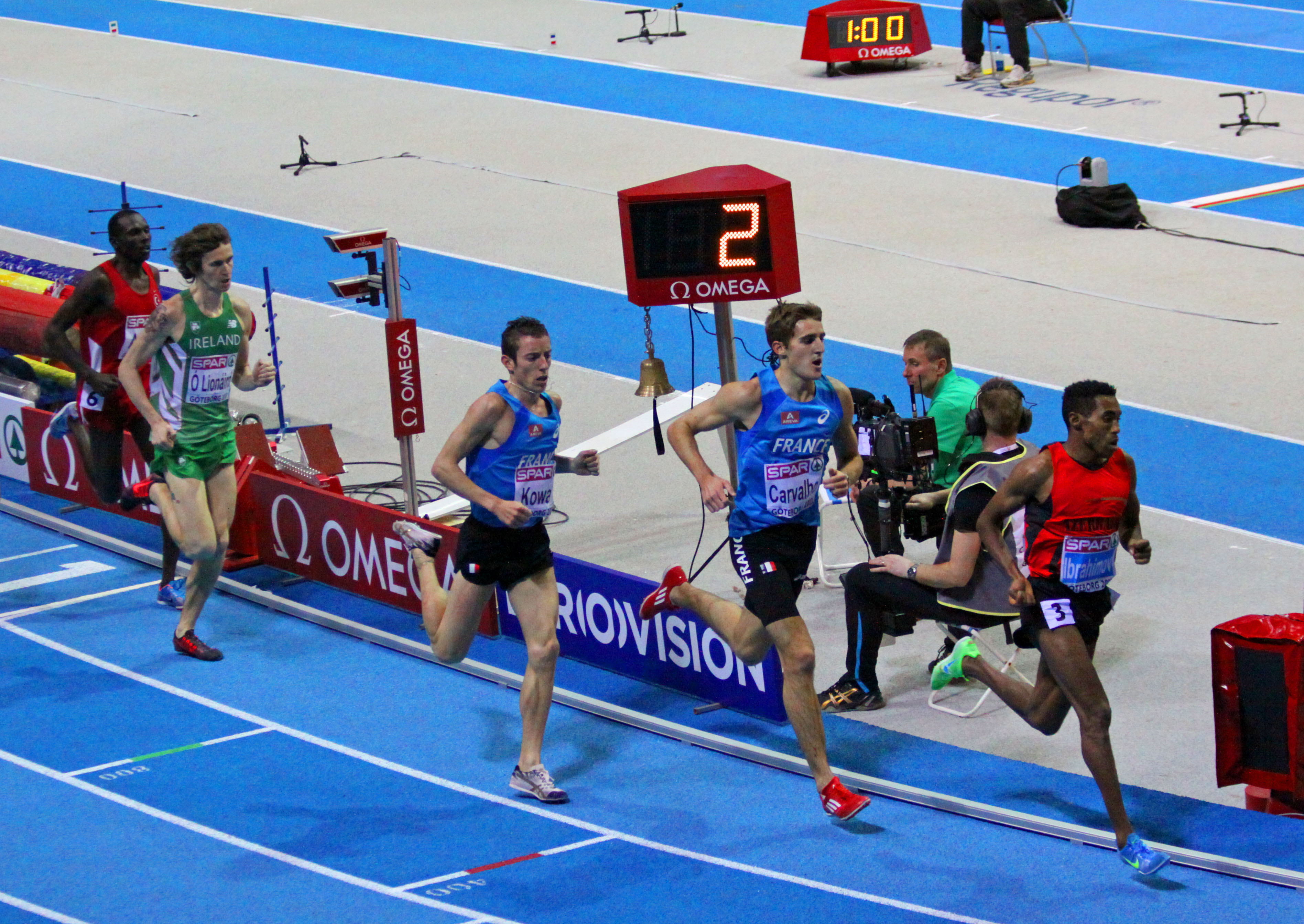 Göteborg. Men 3000 m final : Polat Kemboi Arıkan, Ciarán O'Lionáird, Yoann Kowal, Florian Carvalho, Hayle Ibrahimov.